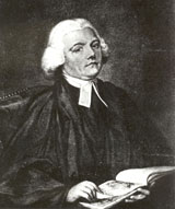 Well-known but inaccurate portrait of Gilbert White (artist unknown).